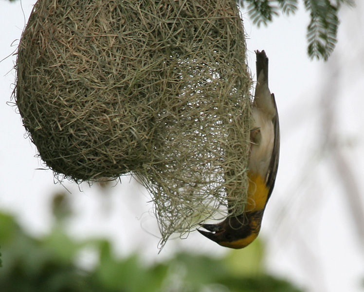 Baya Weaver Ploceus philippinus- Tokora, Tokora chorai (Assamese); Baya, Son-Chiri (Hindi);Baya Chadei (Oriya); Sugaran (Marathi); Tempua (Malay); Sughari (Gujarati); Babui (Bengali); Parsupu pita, Gijigadu/Gijjigadu (Telugu); Gijuga (Kannada); Thukanam kuruvi (Malayalam);Thukanan-kuruvi (Tamil); Wadu-kurulla, Tatteh-kurulla, Goiyan-kurulla (Sinhala); sa-gaung-gwet, mo-sa (Myanmar); Bijra (Hoshiarpur); Suyam (Chota Nagpur)- male in Hyderabad, India.